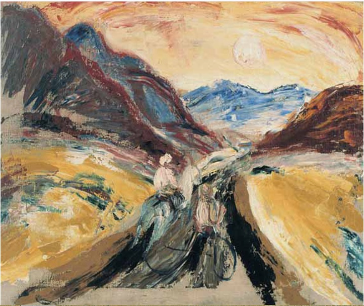 Aleksandr Drevin. Charysh River. 1930. Canvas, oil. 59x70. State Art Museum of the Altai Krai